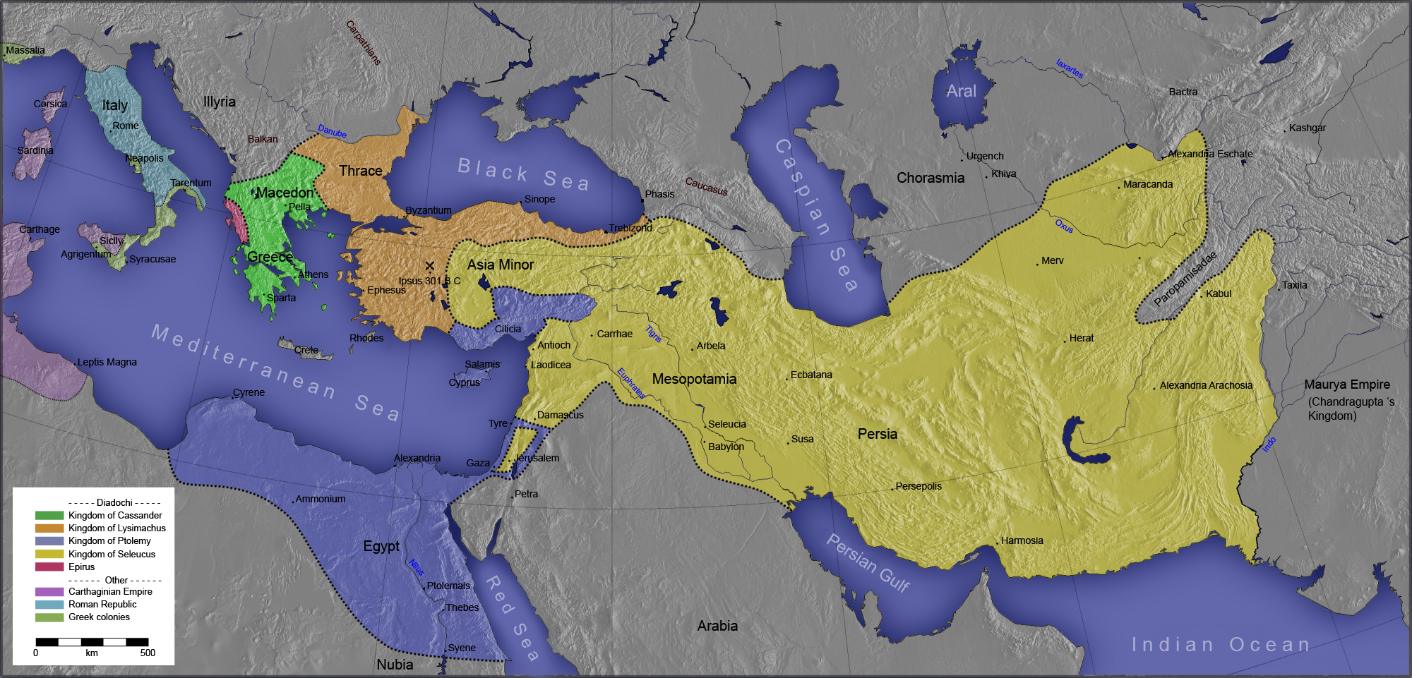 States of the Diadochi, c. 300 BC